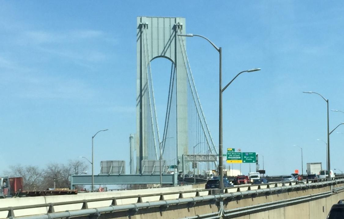 Entering the Verrazano Bridge to Brooklyn